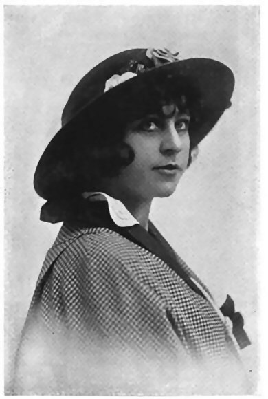 American actress Charlotte Burton